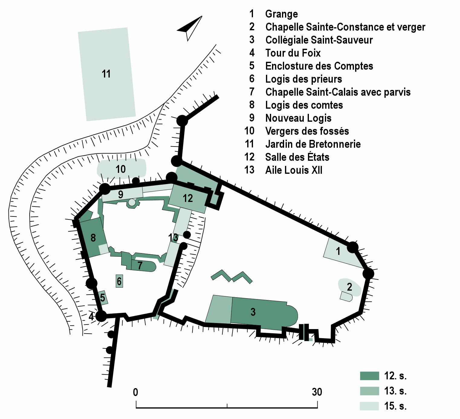 Floor plan of the Château de Blois during the Middle Ages